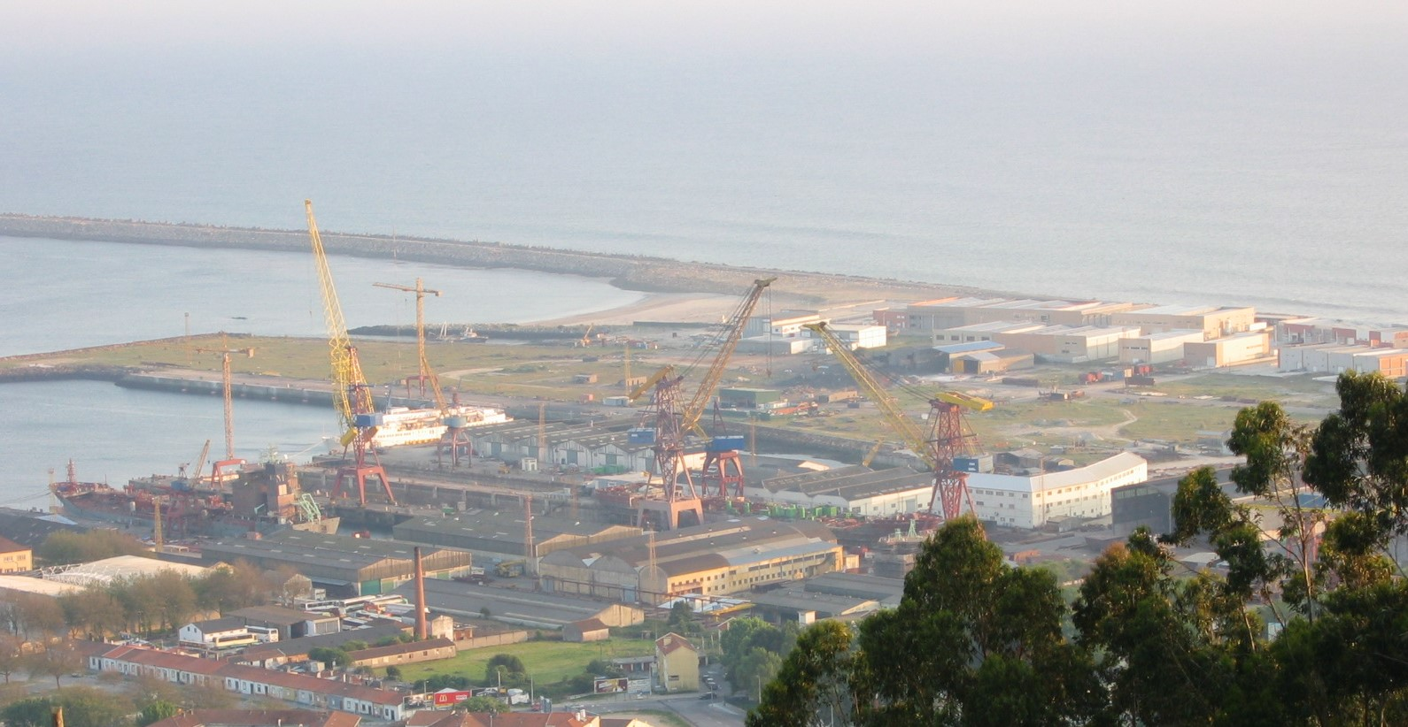 ENVC shipyard, Viana do Castelo, Portugal. Vessels under construction: M/T Kiisla (left, at quay for outfitting) and M/T Suula (right, between the cranes).